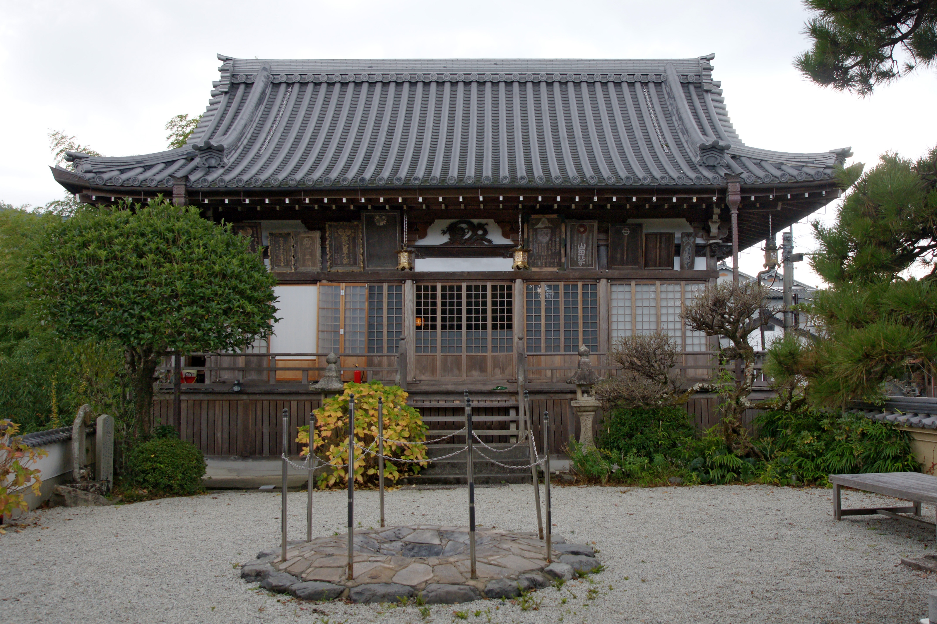 Kizoin in Yoshino, Nara prefecture, Japan